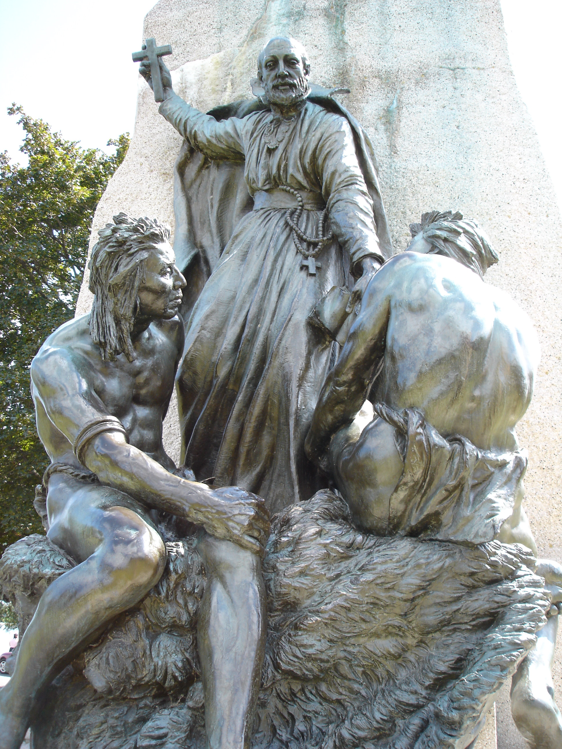 One of the two lower portions of the Samuel de Champlain monument, designed by Vernon March, displayed in Orillia, Ontario, Canada.